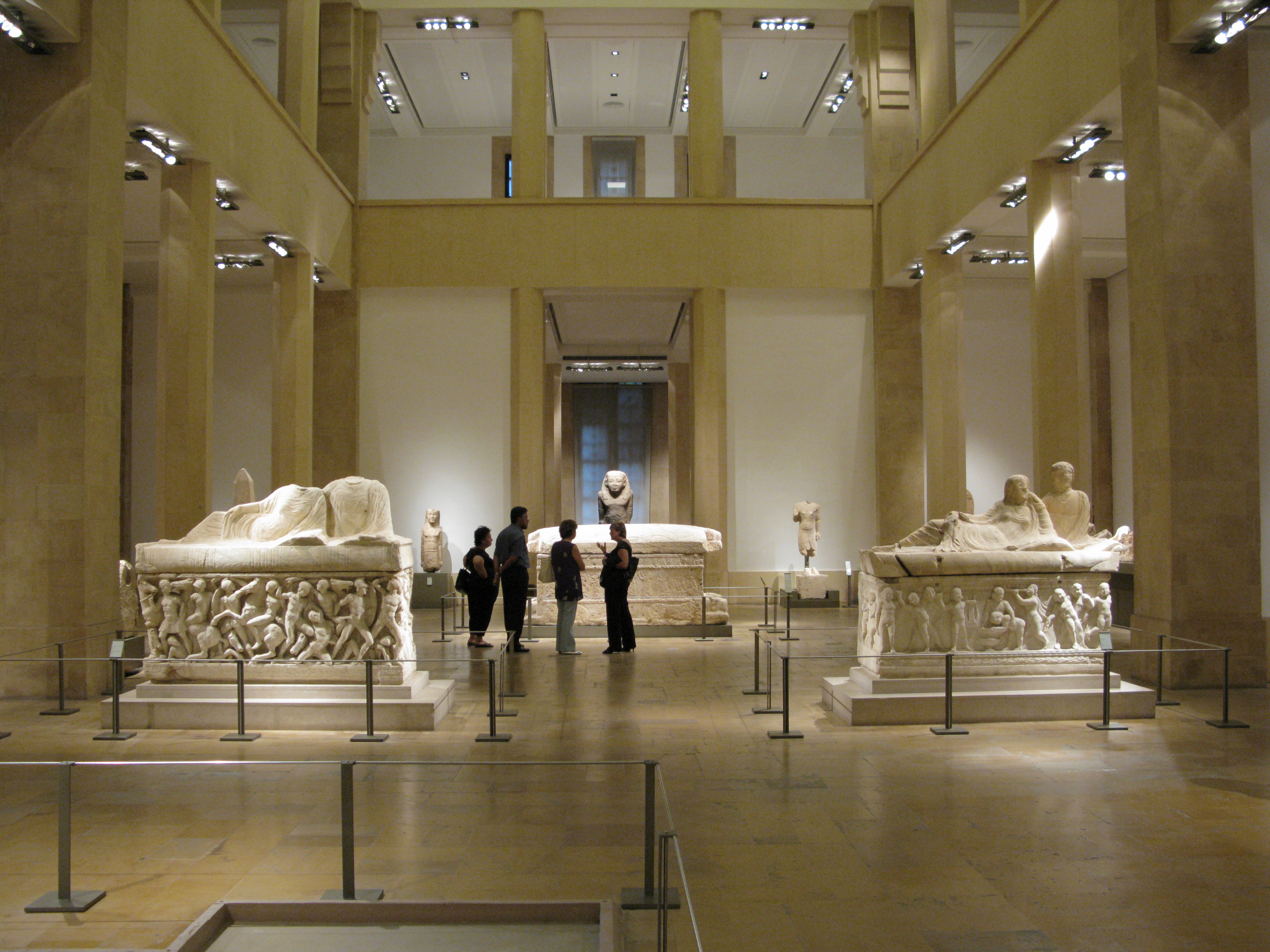 The National Museum of Beirut, the principal museum of archaeology in Lebanon. Beirut, Lebanon.